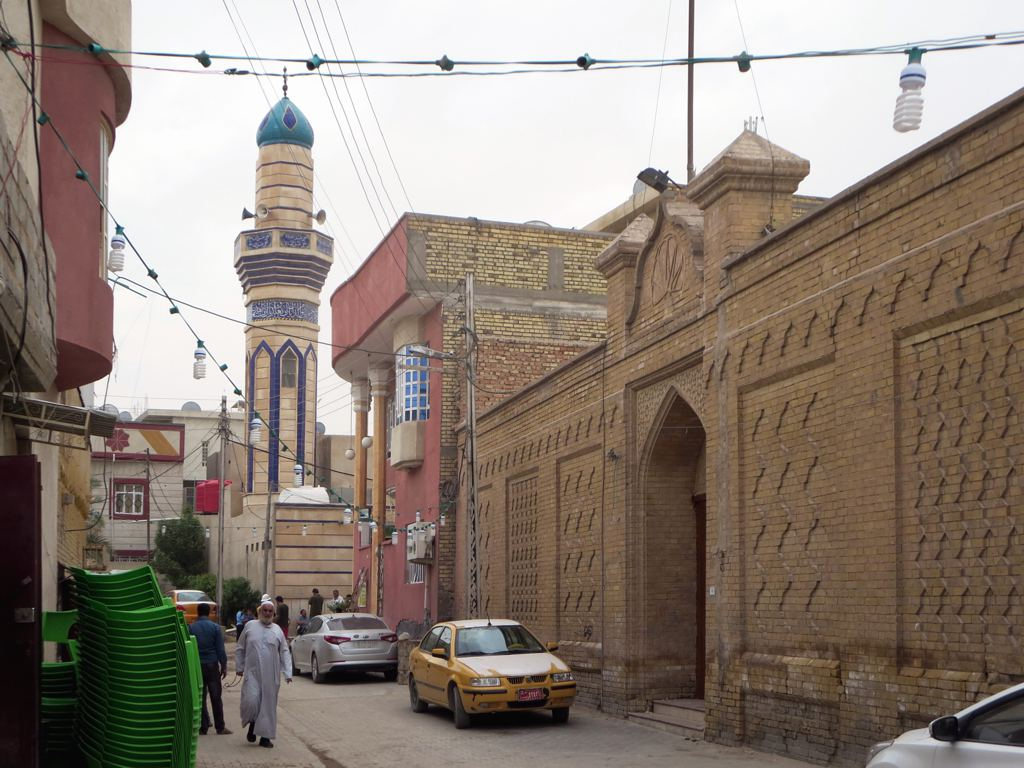 Mosque in Basrah